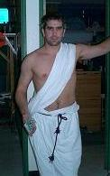 Image was taken by me with my camera